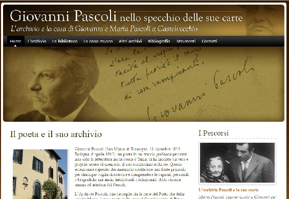 home page portale web pascoliano